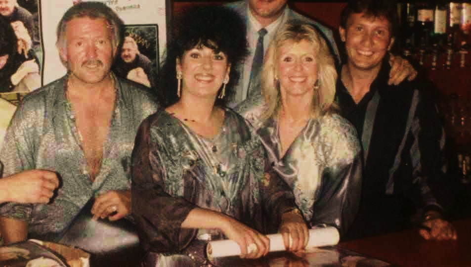 Brotherhood of Man